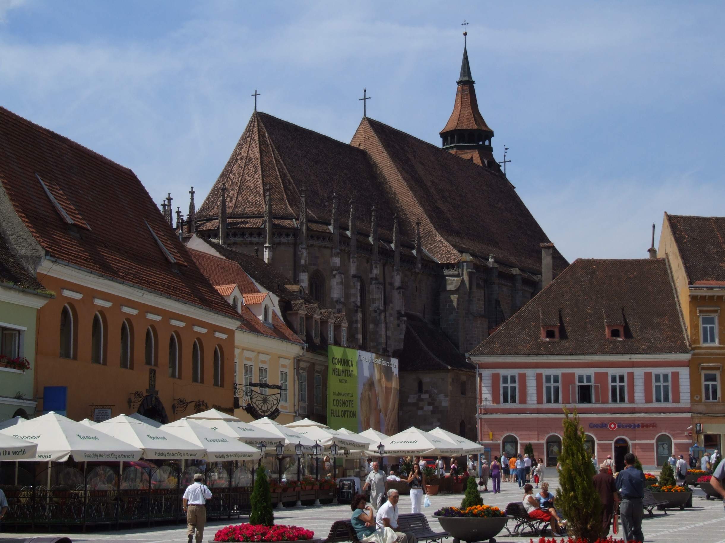 Black Church - Braşov (Kronstadt, Brassó)